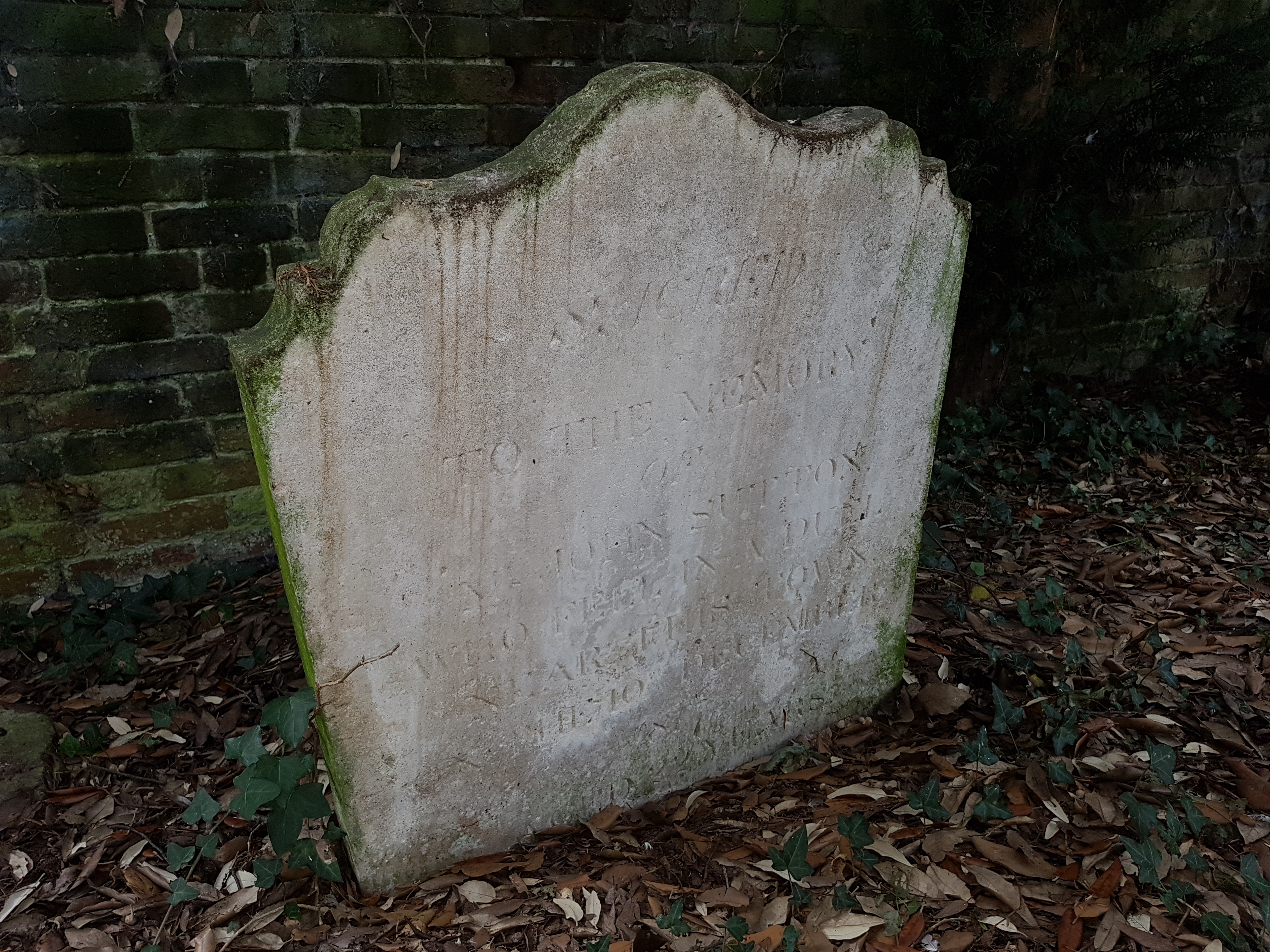 Killed in a duel at Northwood House